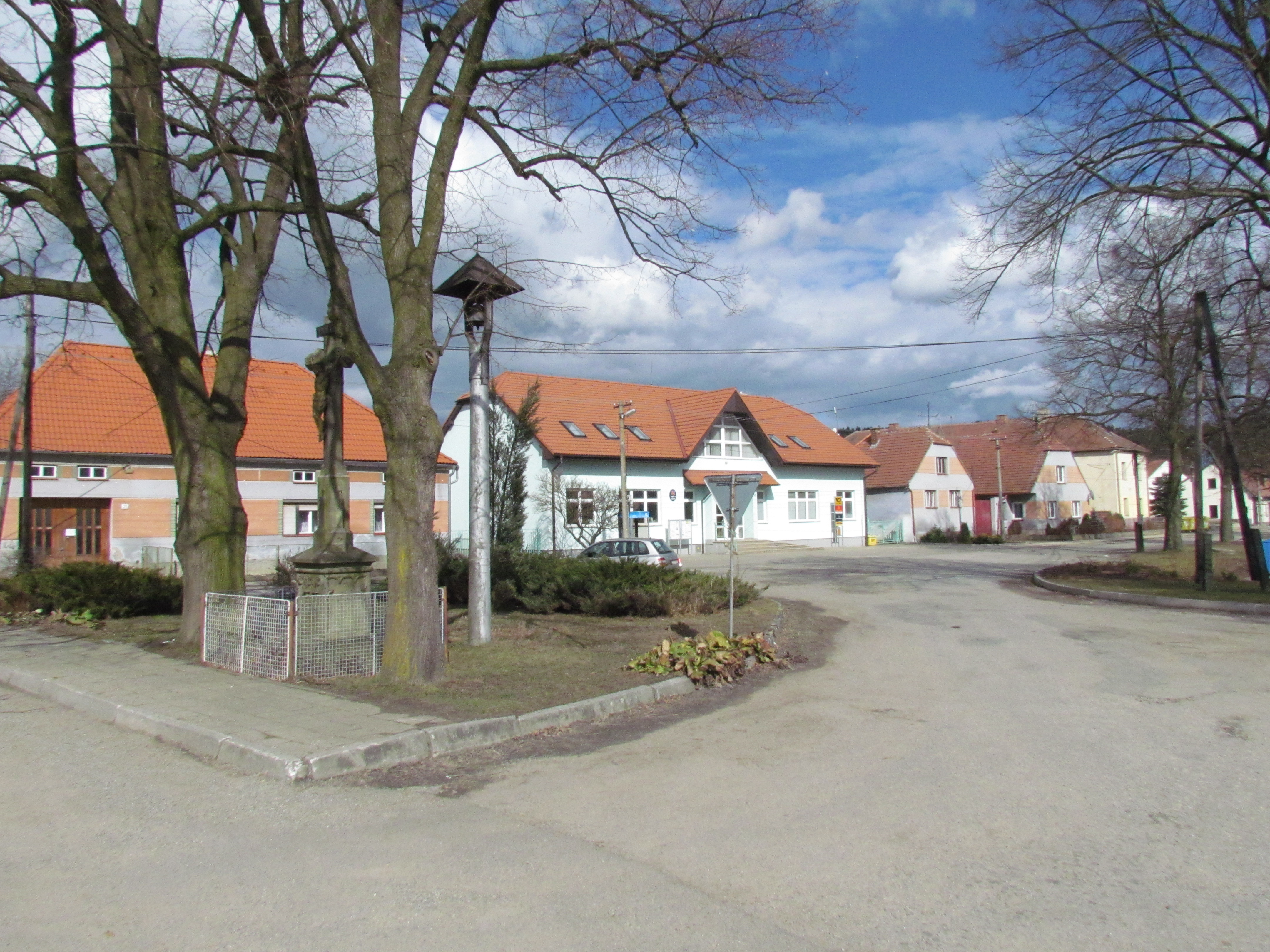 Center of Čechtín at 2013, Třebíč District.